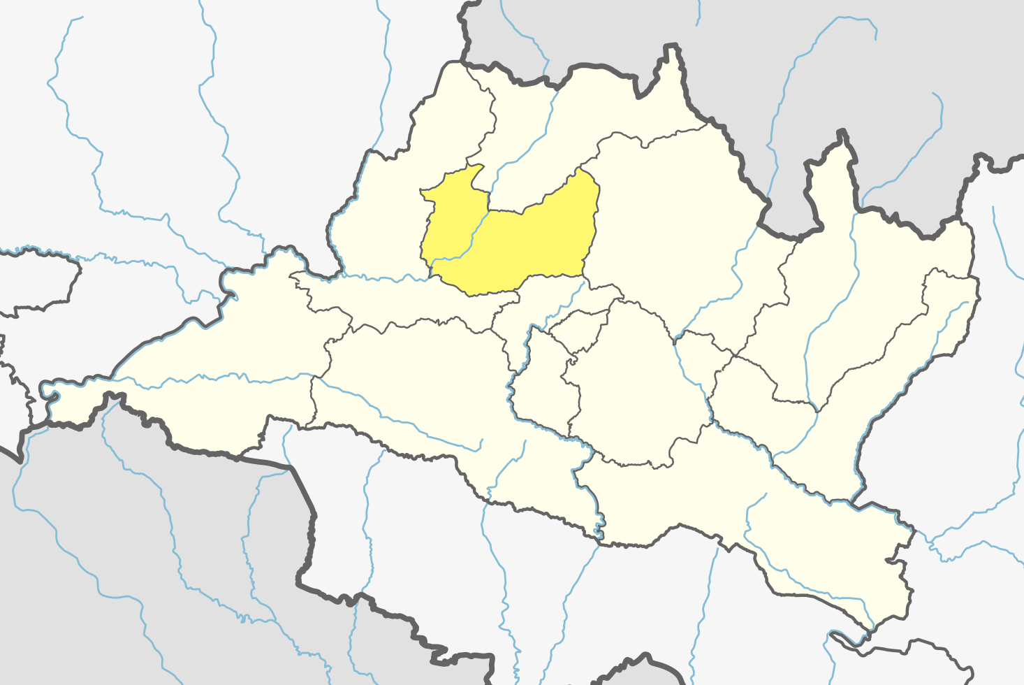 A district of Bagmati Pradesh